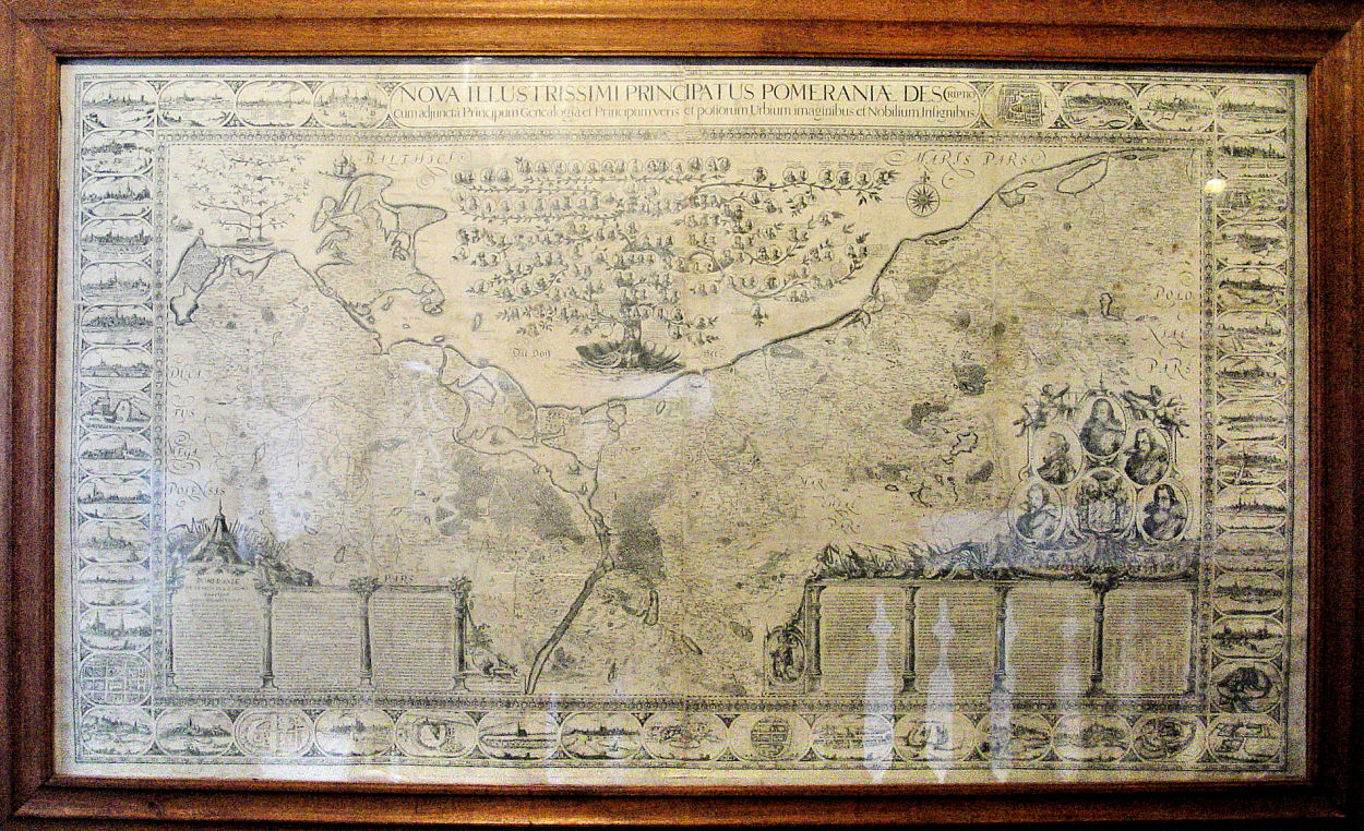 Map of Pomerania, from museum: Castle of Dukes of Pomerania, Darłowo, Poland